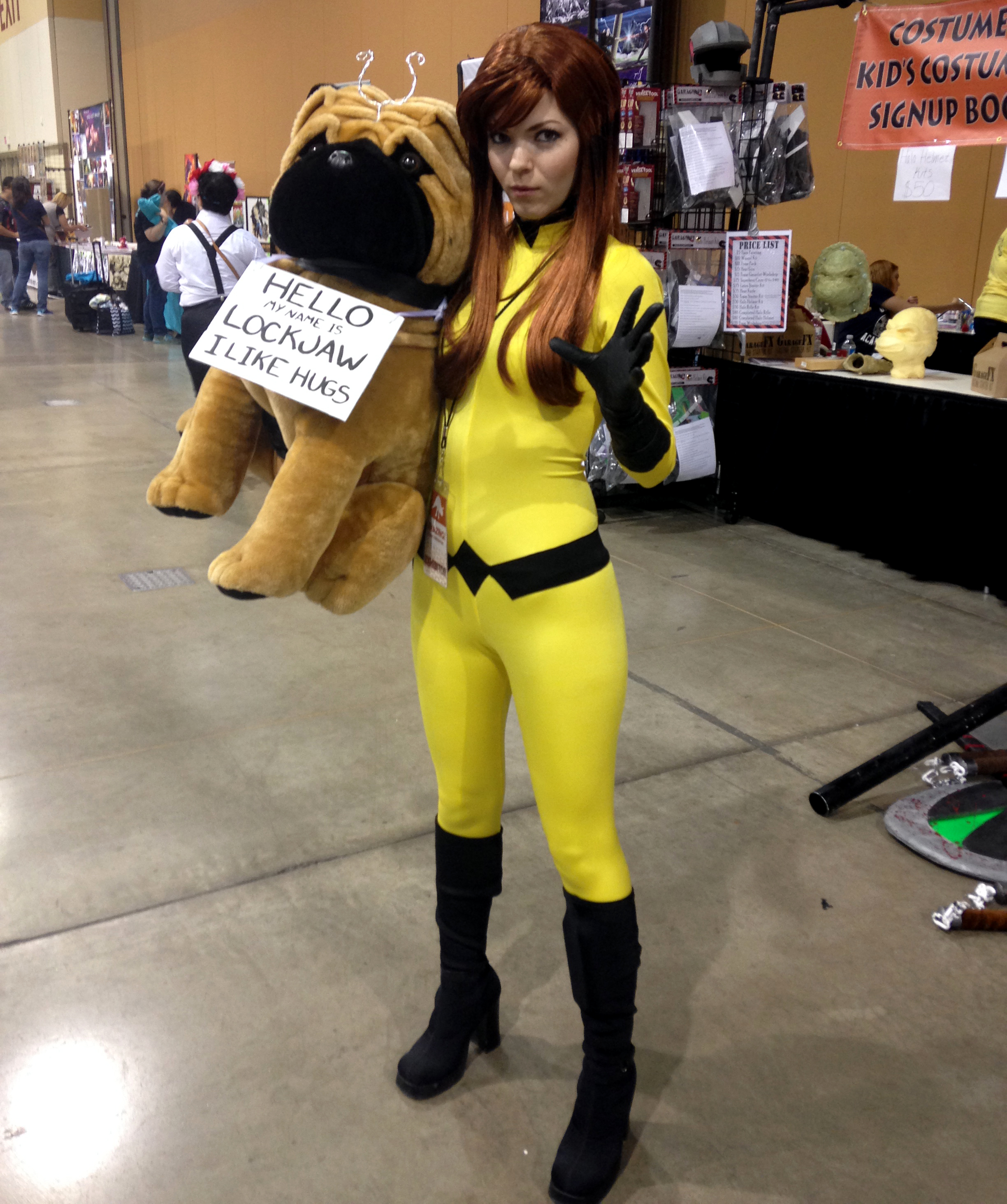 Cosplay of Crystal at Amazing Arizona Comic Con.